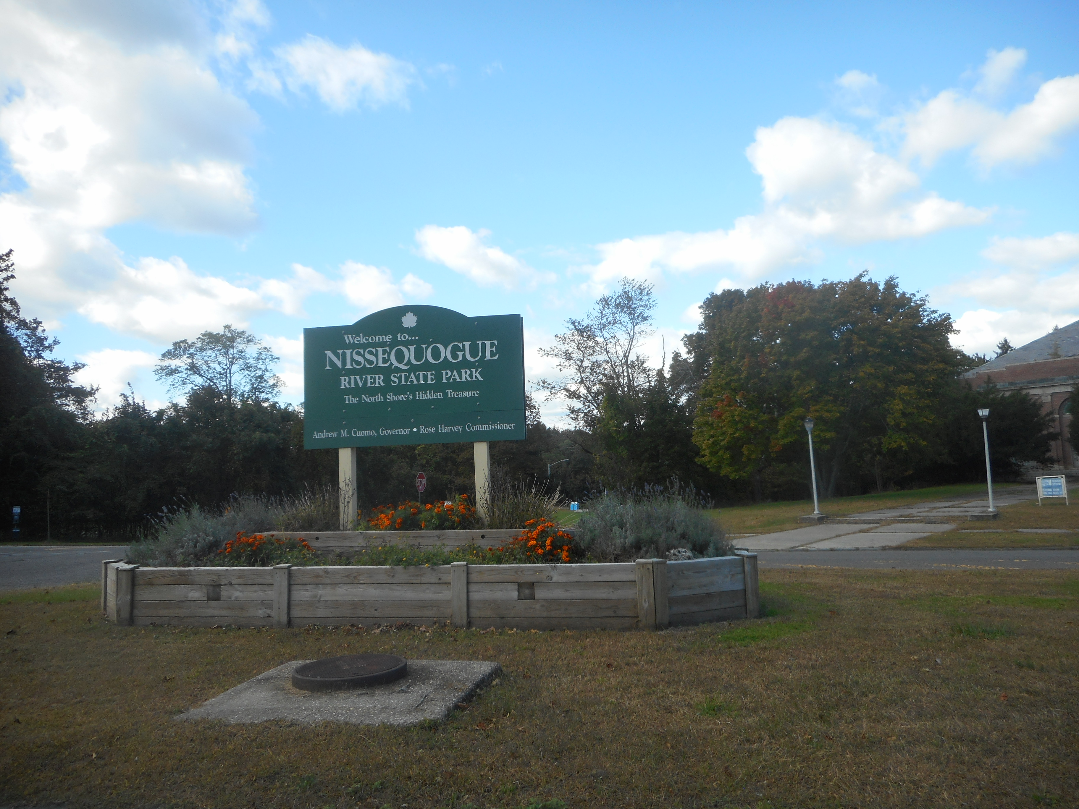 Sign for an entrance to the Nissequogue River State Park at the intersection of Saint Johnland Road in the middle of the divider for Kings Park Boulevard on the grounds of the former Kings Park State Psychiatric Center in Kings Park, New York. Kings Park Boulevard also runs south of here through the rest of the park grounds and former psychiatric hospital as a mostly divided highway towards the wye at NY 25A, also known as East Main Street and "New Highway" at one point.